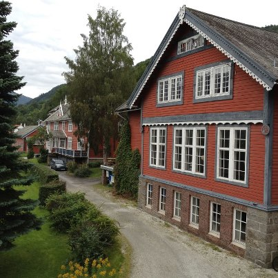 Skolebygg Voss Folkehøgskule